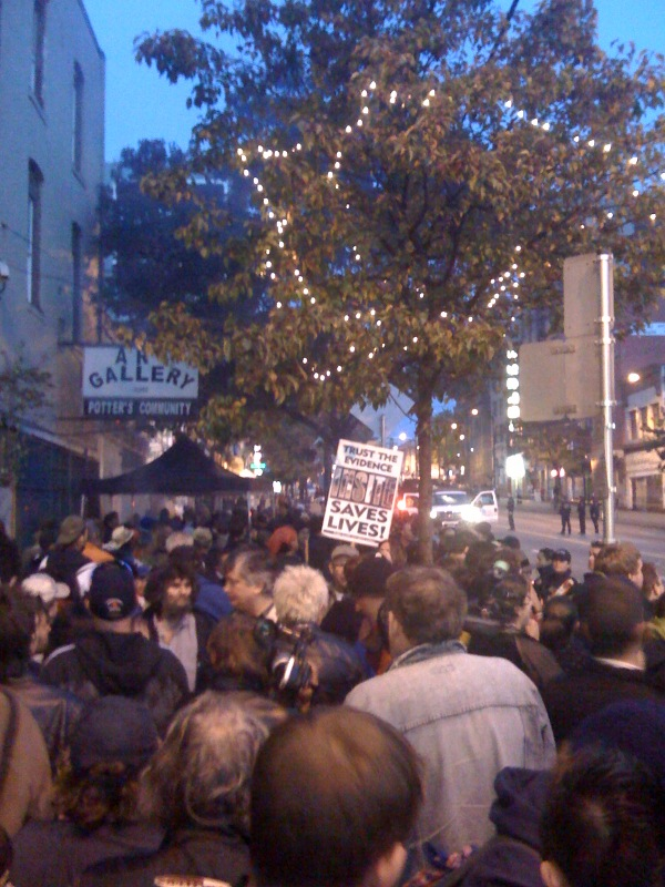 Protesters crowd the sidewalk of East Hastings Avenue during a benefit barbecue and concert for Vancouver's safe injection site, Insite. Police are seen at right and in the background. Police prevented the concert from going ahead, as organizers were not granted permits by the city.